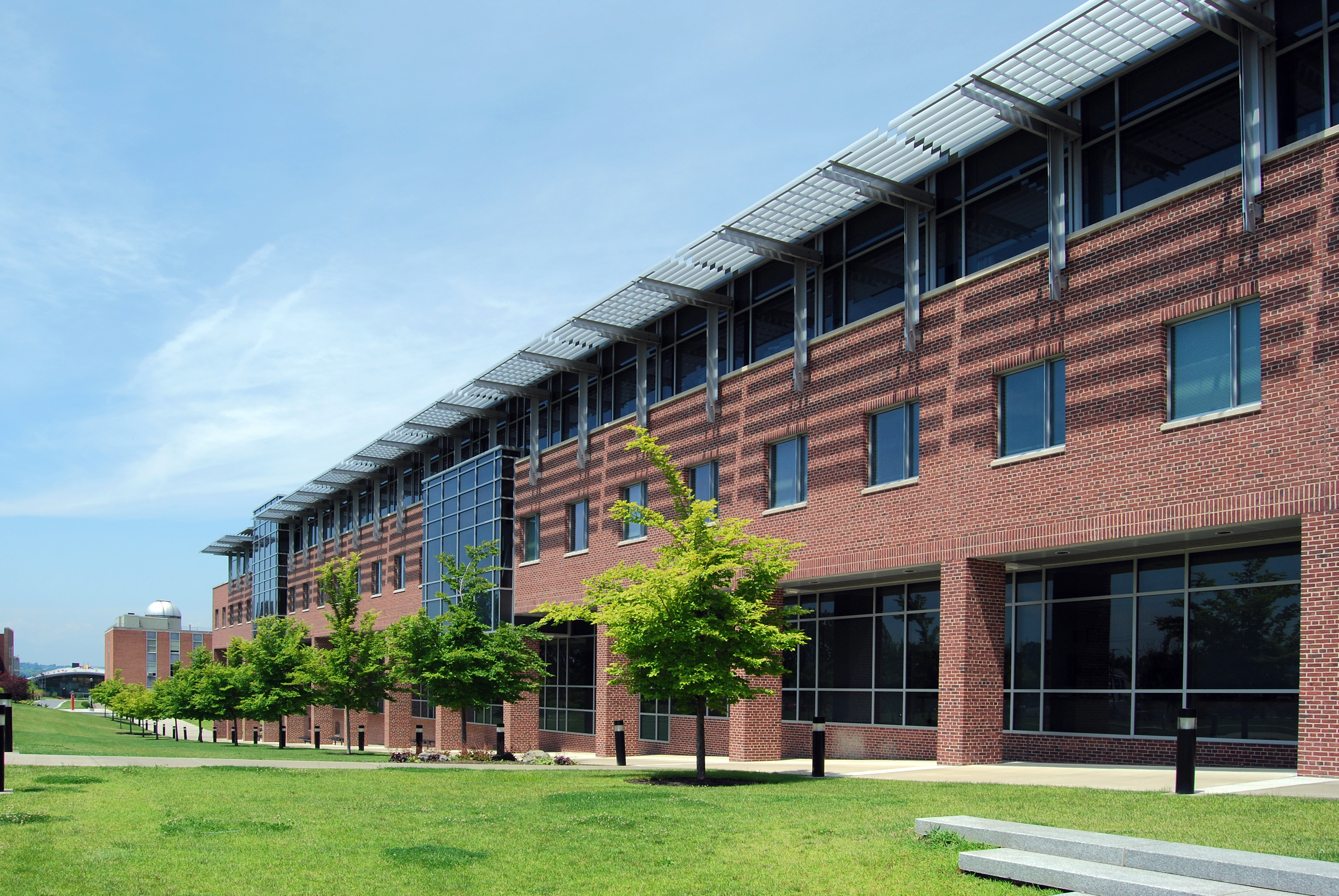 Center for Biotechnology and Interdisciplinary Studies on the campus of Rensselaer Polytechnic Institute in Troy, New York, United States